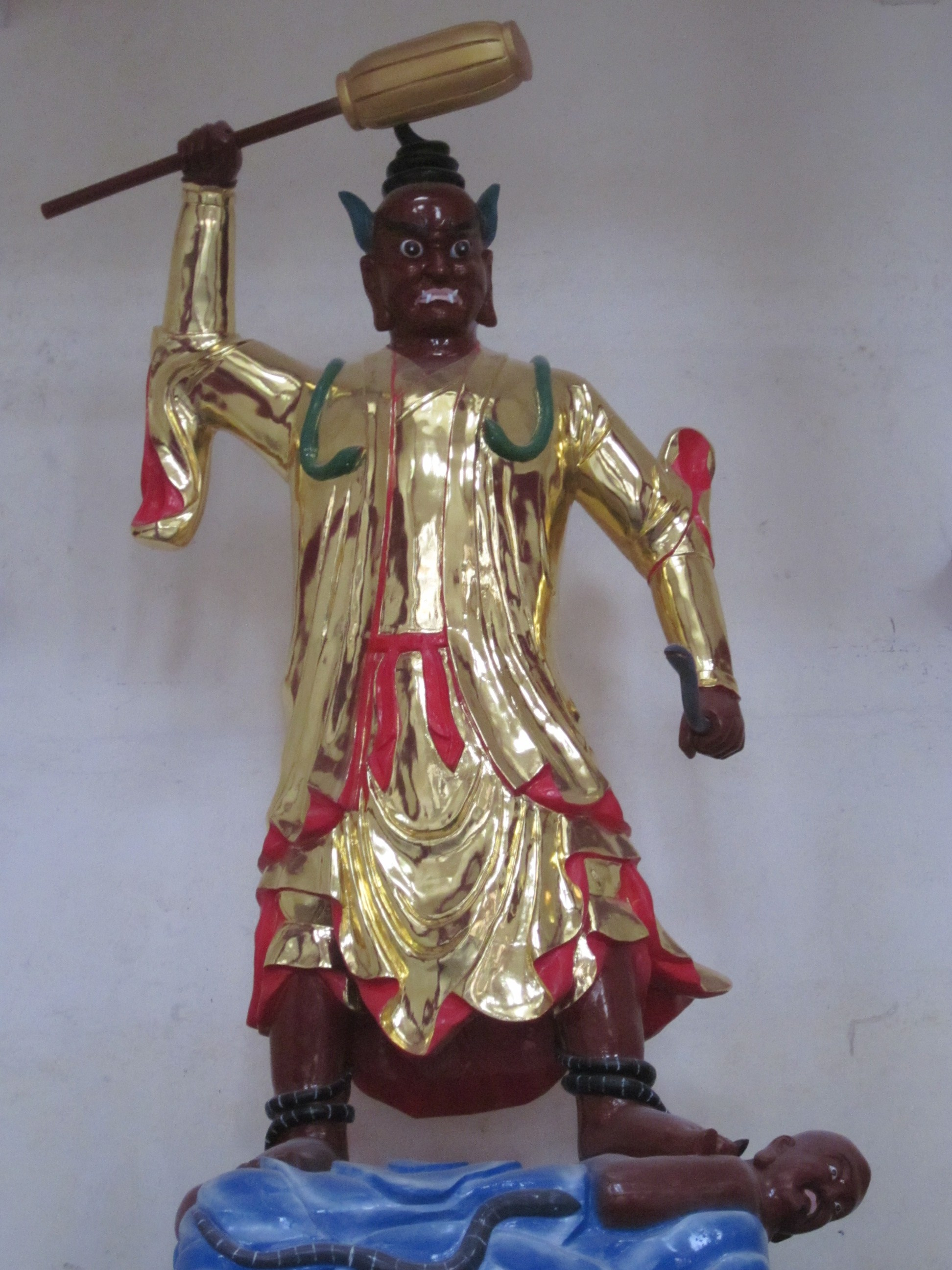 The Buddha She'e, is a Chinese Buddhism god.中文（中国大陆）: 蛇恶尊神又名蛇恶诸天、巡山使者，是中国湖南省长沙市和江苏省常熟市的汉传佛教神祇信仰。